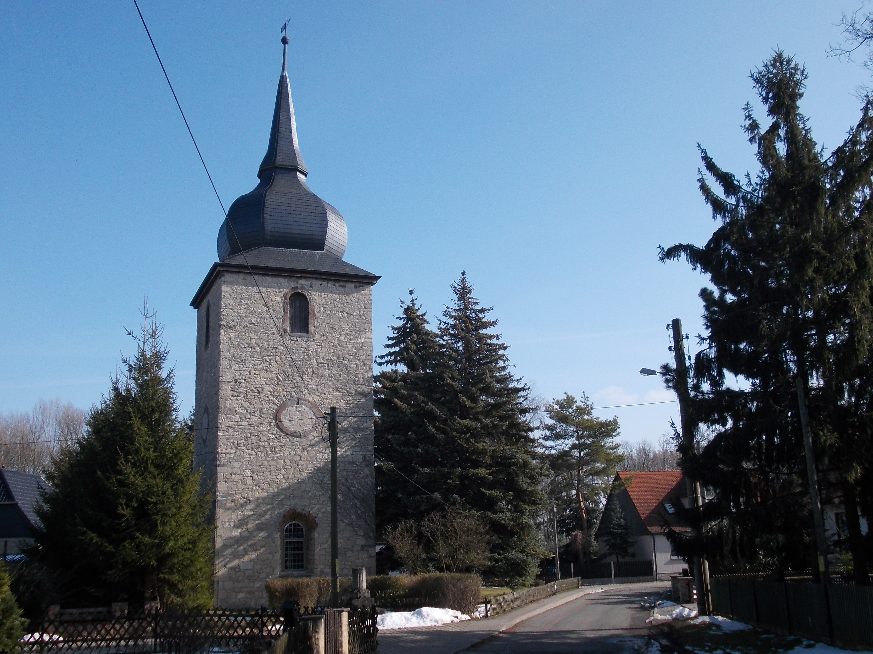 Schortau church (Braunsbedra, dictrict of Salekreis, Saxony-Anhalt)